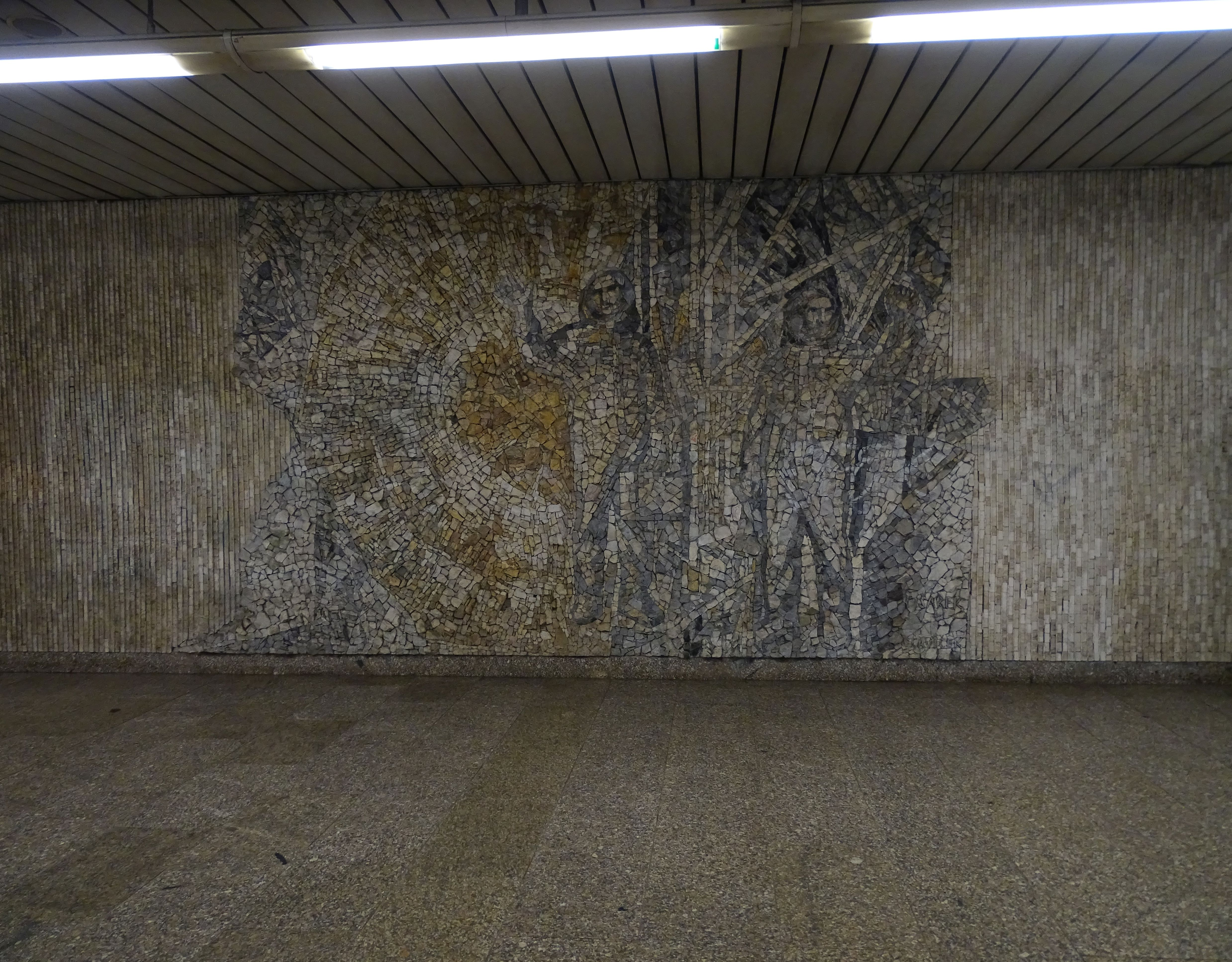 Prague-Háje, Czech Republic. Metro station Háje, the west vestibule. A mosaic "Kosmonauts".